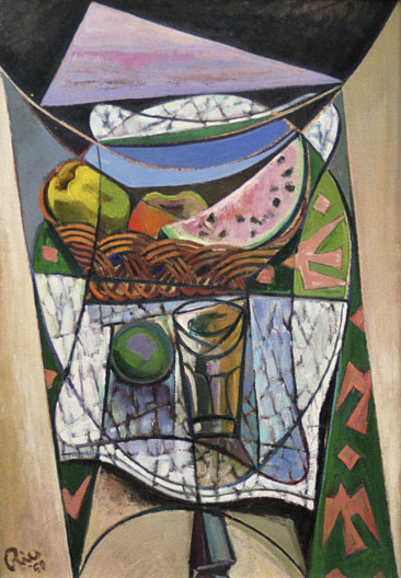 1950 Stilleven met fruitschaal